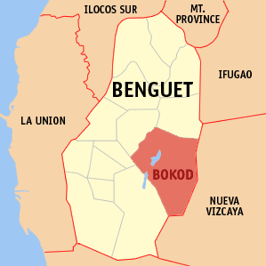 Map of Benguet showing the location of Bokod